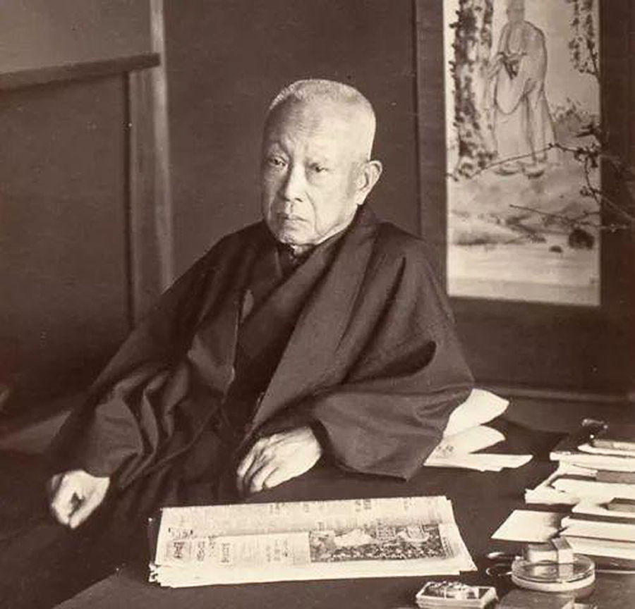 Kinmochi Saionji (西園寺公望, 1849-1940). Japanese Prime Minister 1906-08 and 1911-12.